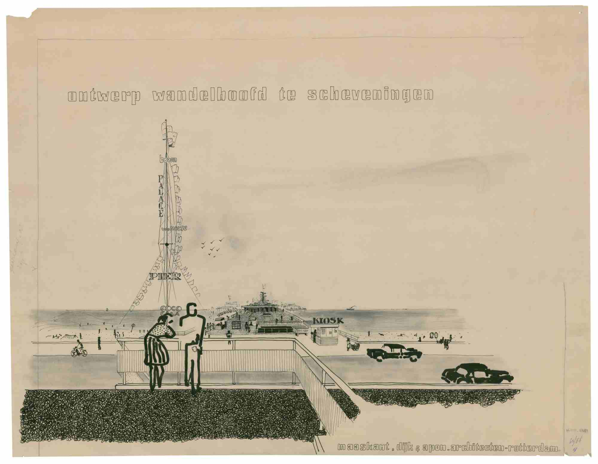 'Summer Dreams' is about sun, vacation and leisure. Drawings, models, photographs and other documents show how the Dutch spent their leisure time in the last century: outside in the sun, in the city, on the water, or in nature. From designs for swimming pools, summerhouses and luxury holiday resorts, to travel sketches and drawings of all that grows and blossoms. The exhibition features the Sporthuis Centrum summerhouses by Jaap Bakema, the beach house by F.A. Warners, and a garden design by Romke de Vries, but also a lazy beach scene by Koen Limperg, the frivolous bathing caps by Henry Wijdeveld, and a drawing of the faint light of a summer evening by Michel de Klerk.